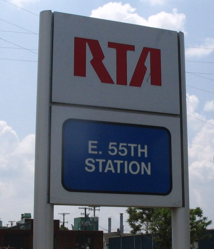 Sign at the entrance to East 55th Station on the Red, Blue and Green Lines of Cleveland RTA Rapid Transit